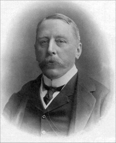 Portrait of John Alexander Fuller Maitland printed in and scanned from The Musical Times, 1 January 1911, p. 11. Photograph credited to Messrs Russell & Sons.